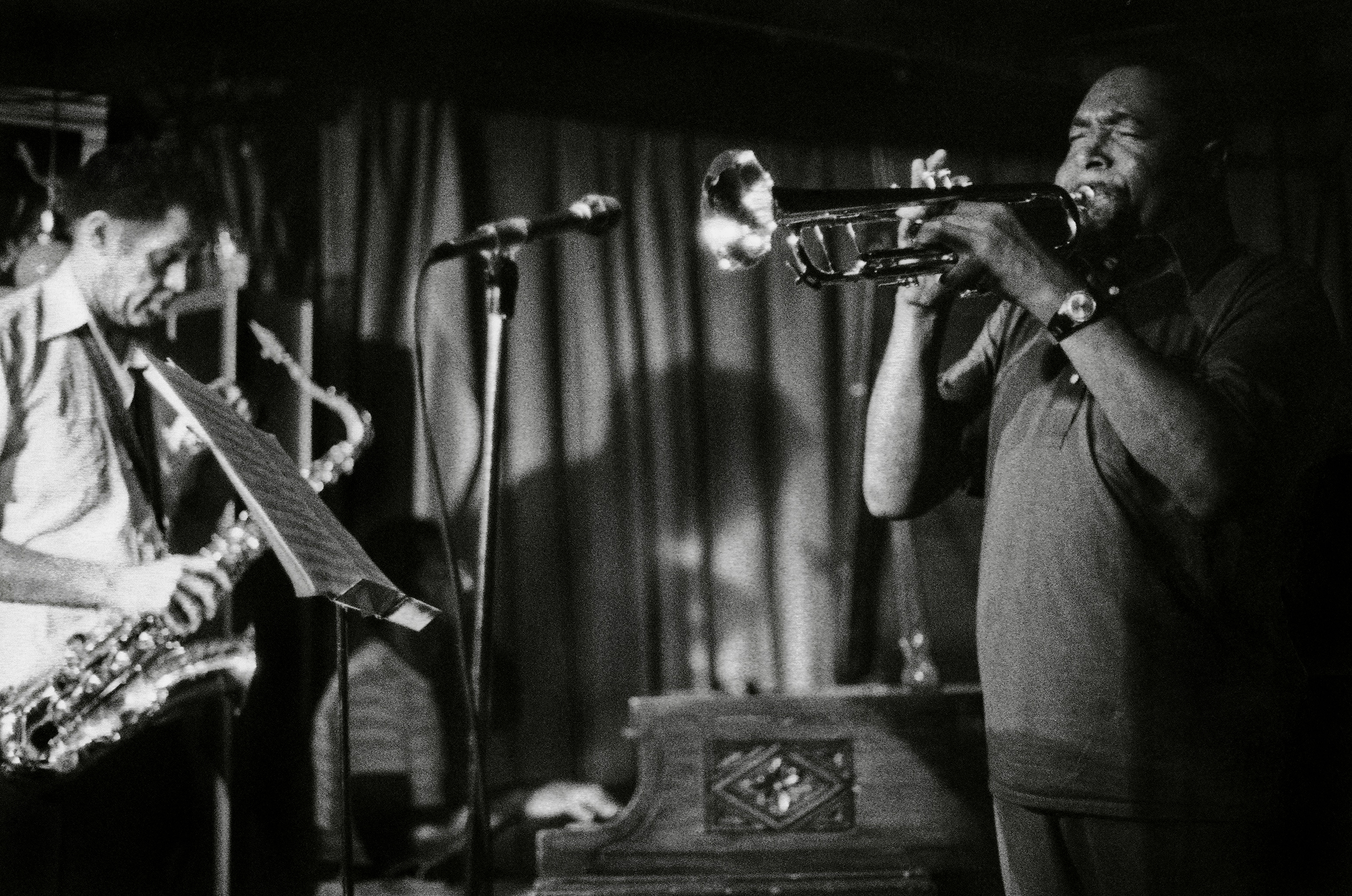 Dexter Gordon & Benny Bailet at The Village Vanguard June 1977